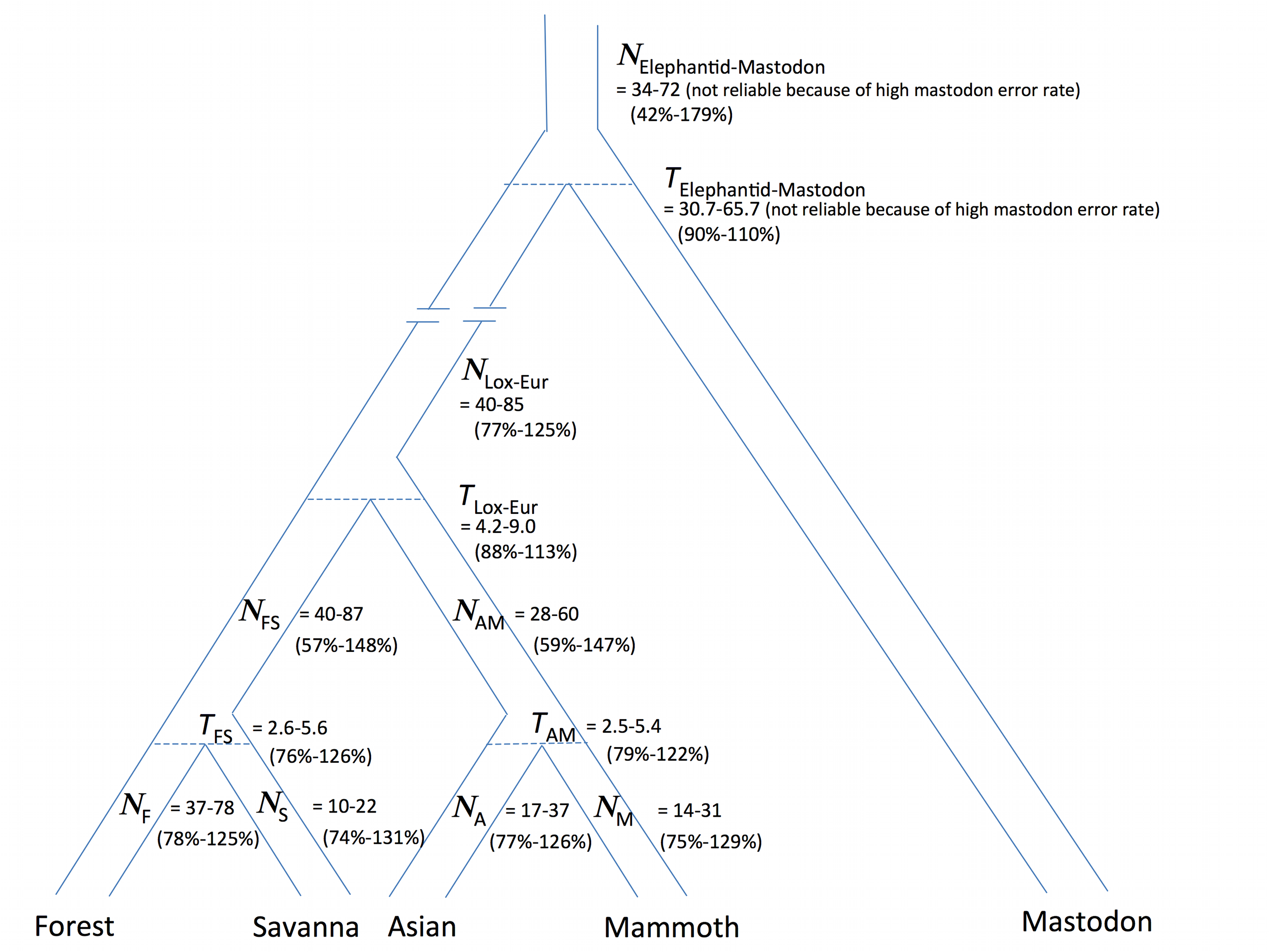 This is the most accurate phylogenetic tree of the elephants and mammoths as of 2010. The numbers by the T parameters are the population divergence dates given in millions of years before the present. The numbers by the N parameters are the effective population sizes given in thousands. The structure of the tree was constructed from genetic data using statistical bioinformatics techniques and then the date values were calibrated with fossil evidence. For more information see the open access source article.